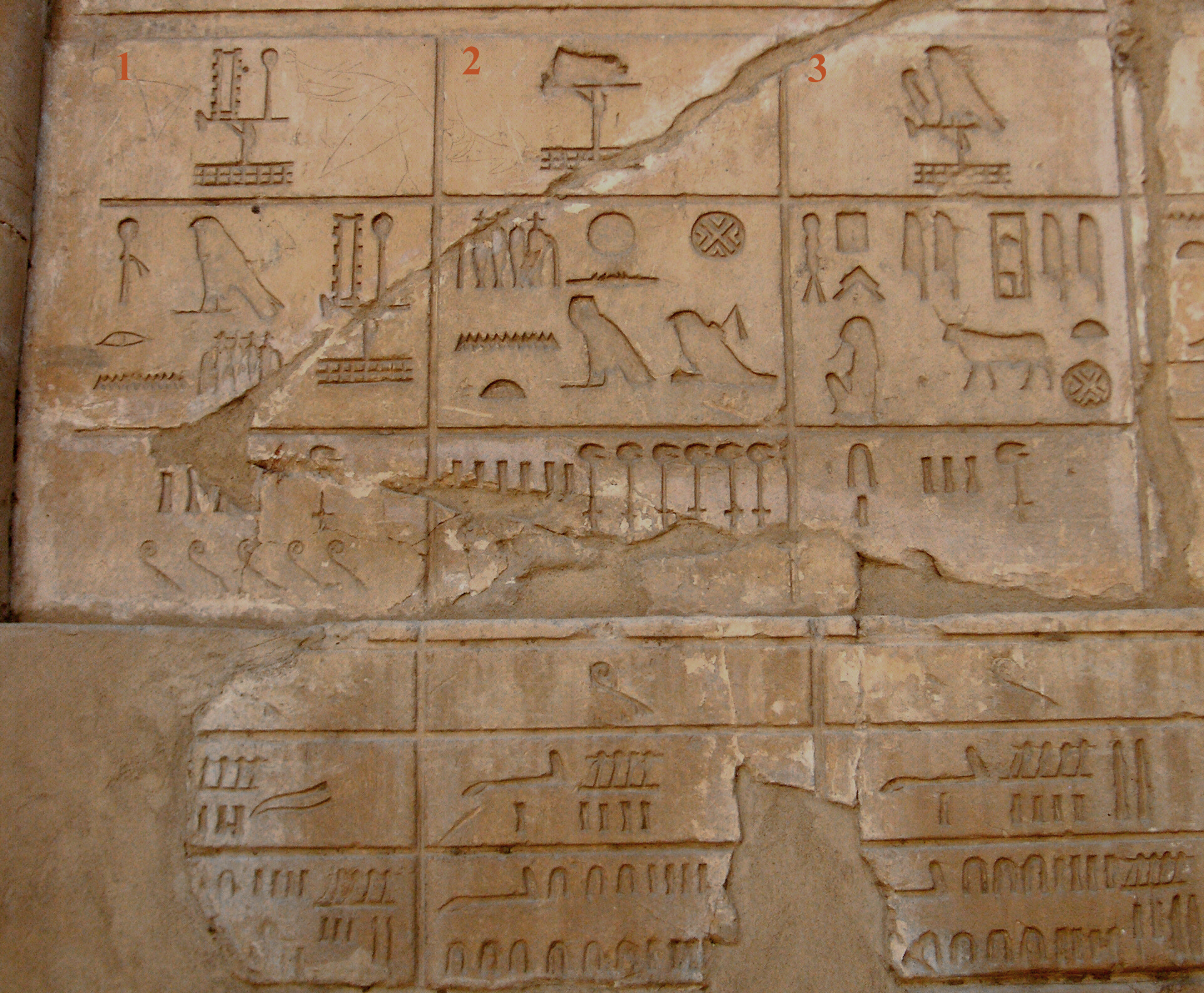 Nome 1 to 3 of Lower Egypt (list of Sesostris I.)